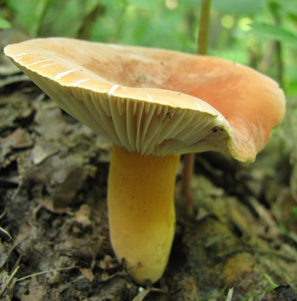 Lactarius hygrophoroides Location: Wildcat Hollow, Wayne National Forest, Ohio, USA For more information about this, see the observation page at Mushroom Observer.